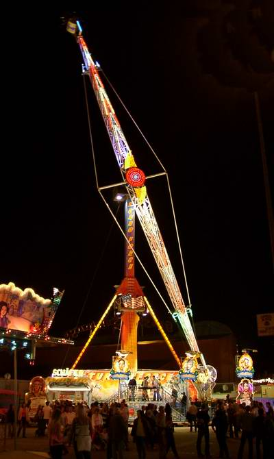 Turbo Force Cannstatter Wasen